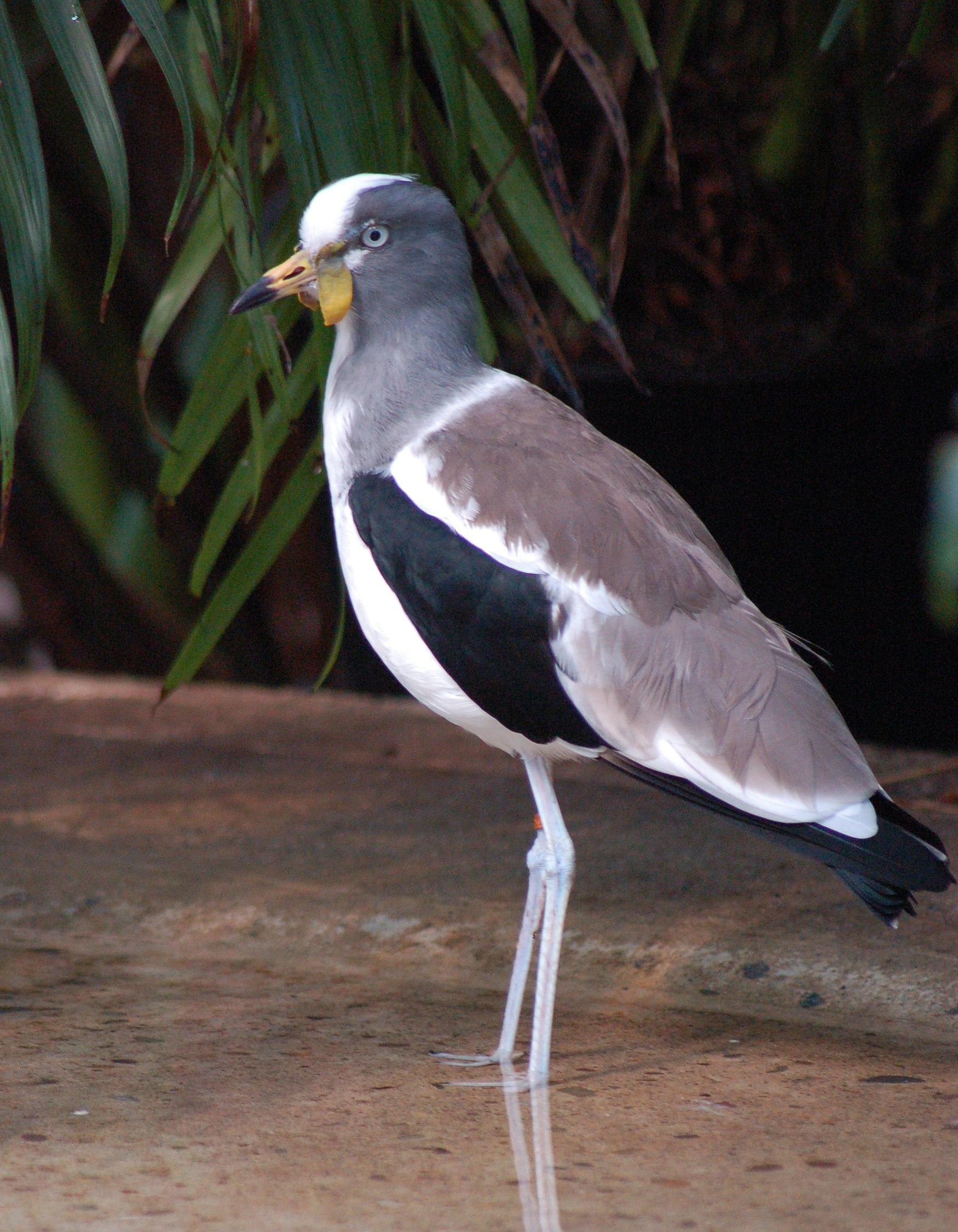 A photograph of an White-crowned Ploveren (Vanellus albiceps en ). Photo taken at the National Aviary.